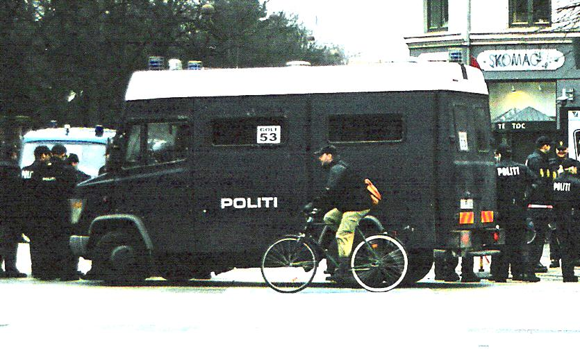 Hollændervogn is a riot control vehicle of the Danish police. Literally Dutchman's vehicle, because it's a Mercedes-Benz Vario reinforced in the Netherlands to sustain missiles from rioters. In the Netherlands it has the nickname "Tupperware-tank". Picture taken March 4th 2007 in the vicinity of the "Ungdomshuset" on "Nørrebro", Copenhagen, Denmark.